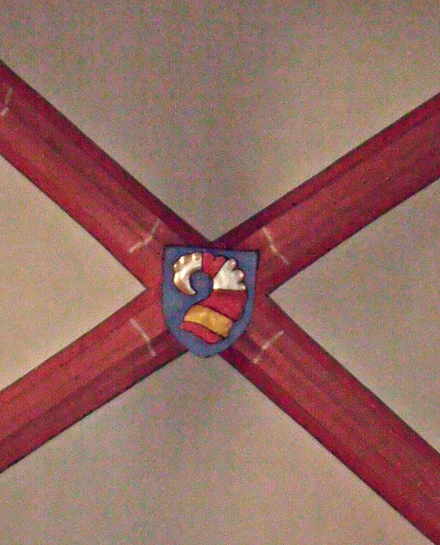 Gewölbeschlussstein mit Wappen "von Bach" Pfarrkirche St. Ulrich Deidesheim